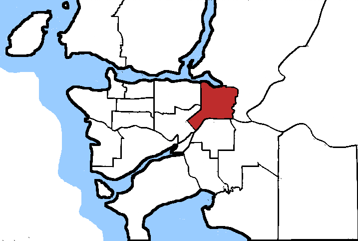 Map of the New Westminster—Coquitlam electoral district. Based on Earl Andrew's maps, created by SimonP.